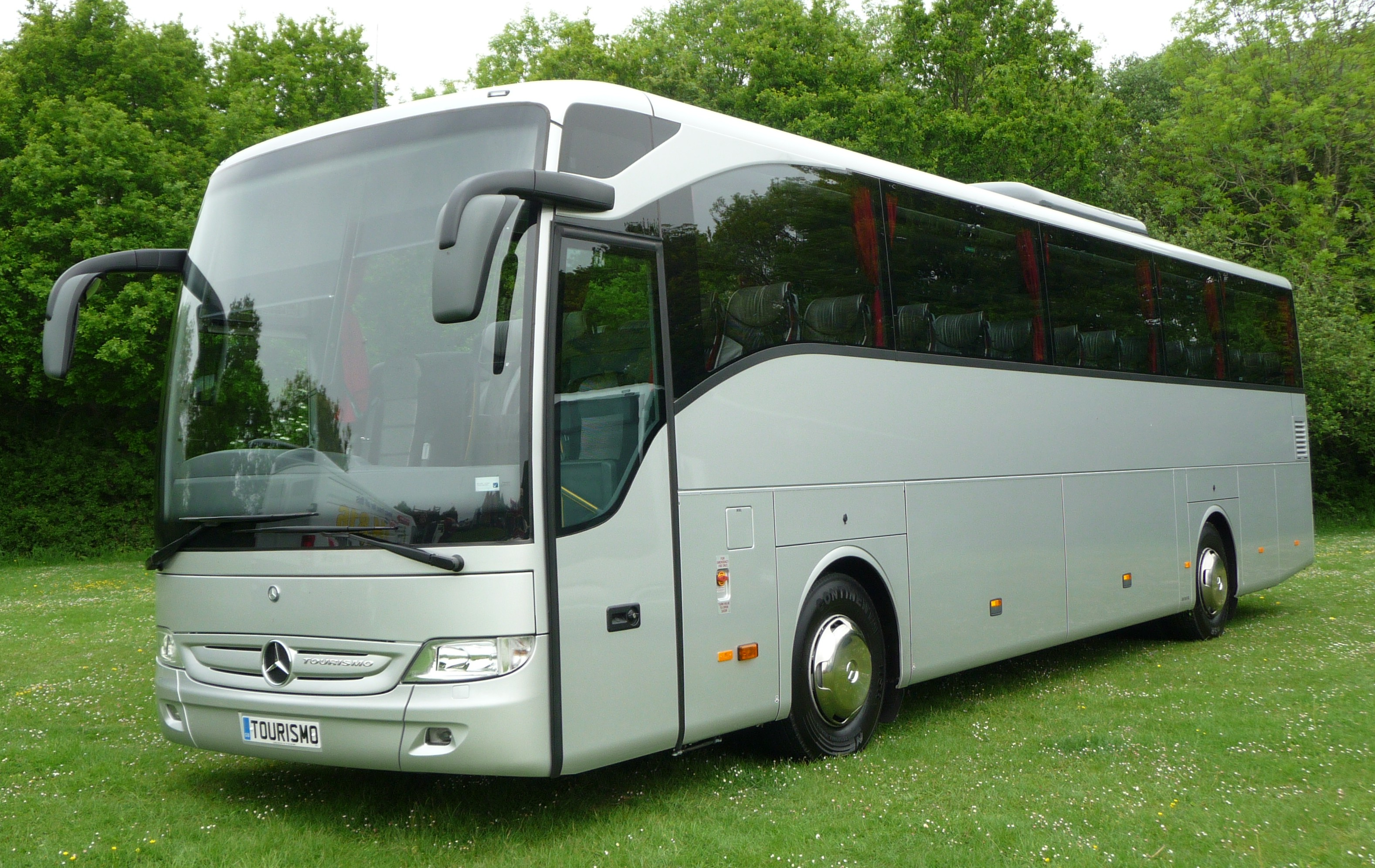 A Mercedes-Benz Tourismo demonstrator, seen at the Bustival event, Havenstreet, Isle of Wight, celebrating the 80th anniversary of Southern Vectis.